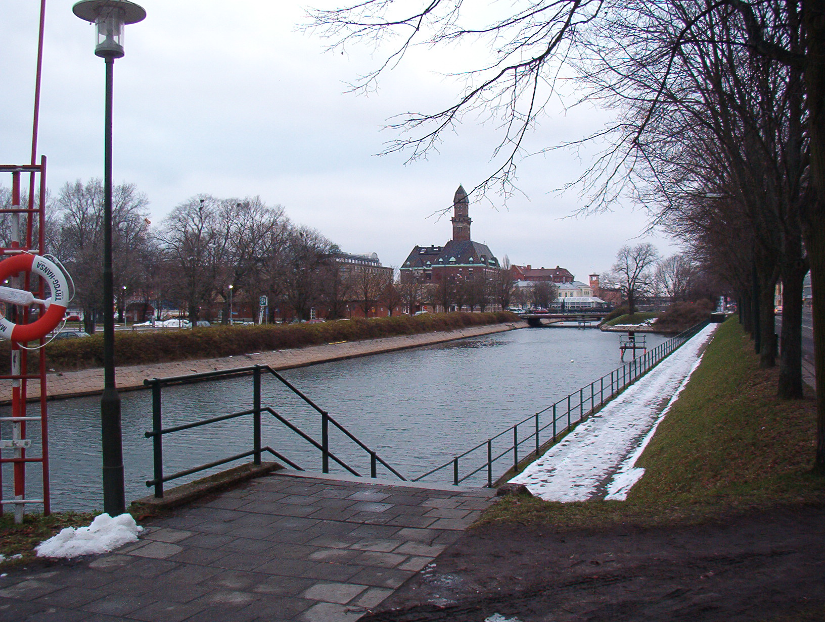 A channel in Malmö, down west by the harbour. The building with the tower belongs to Malmö University College (Malmö högskola) and is not open to the public (at least not to me). In the far back to the right is the orange Malmö Central Station. date january 2006